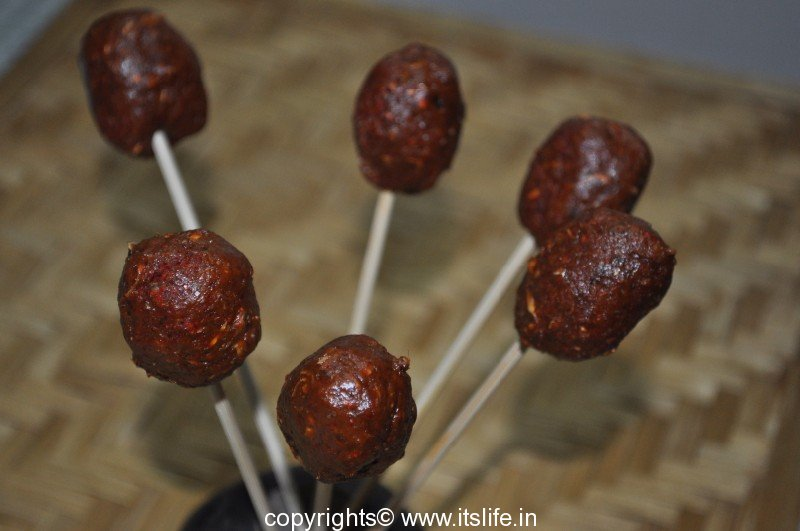 Hunase Chigali